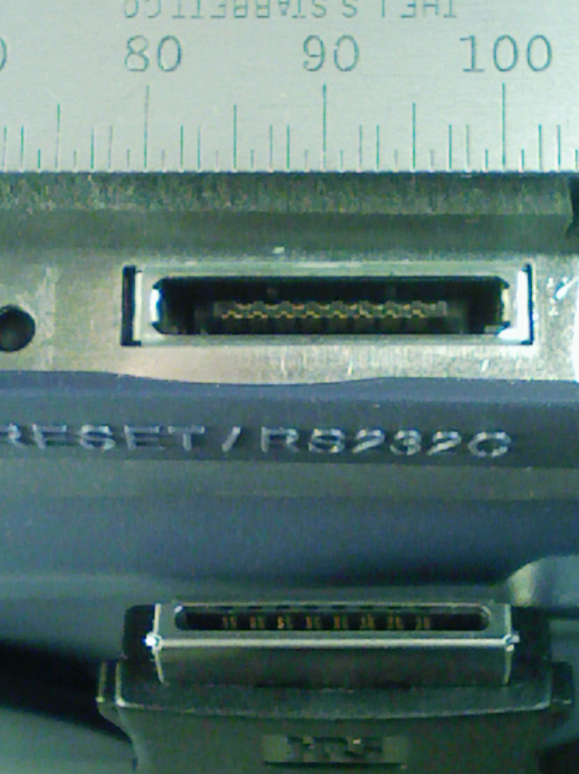 The serial port on a Tatung TWN-5213 CU tablet computer. The hinged plastic cover of the port is marked "RESET/RS232C". Below the cover is a mating connector, a Hirose 3540-16P-CV. The smallest increment on the scale is 1 mm; the connector is approximately 20 mm wide. Numbering of contacts as seen above in the 3560-16S. 2 4 6 ... 12 14 16 1 3 5 ... 11 13 15 Resistance in ohms measured from each contact to the metal frame. 1 12 k 2 infinity 3 4 k 4 infinity 5 infinity 6 infinity 7 infinity 8 0 9 4 k 10 4 k 11 4 k 12 4 k 13 infinity 14 infinity 15 infinity 16 0